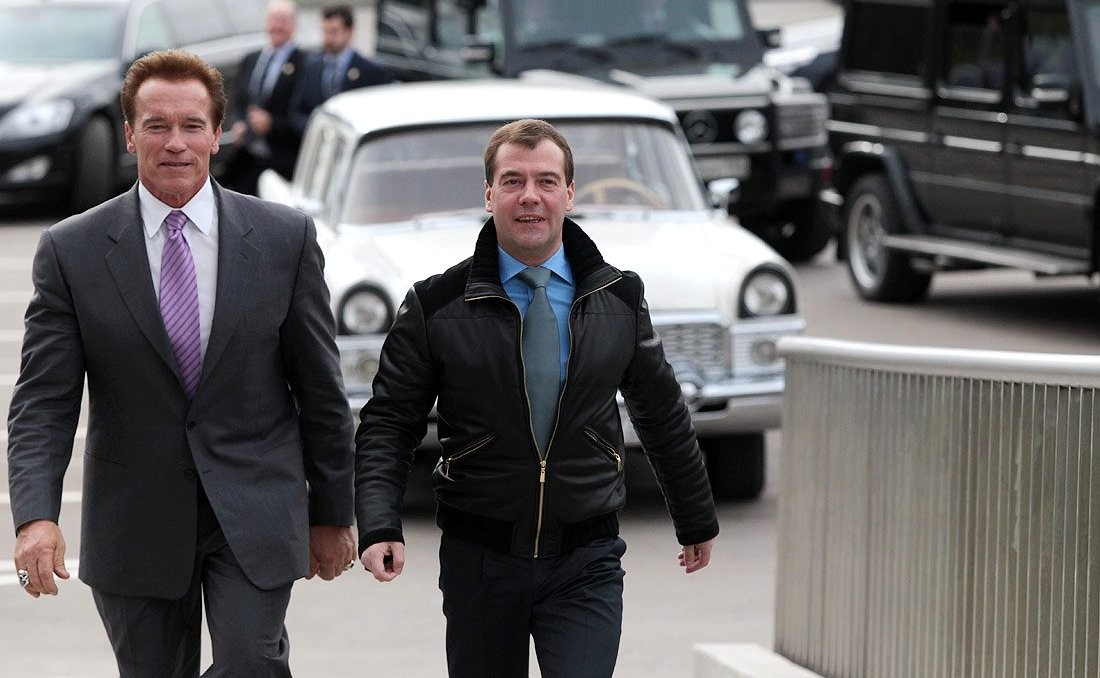 With Governor of California Arnold Schwarzenegger.